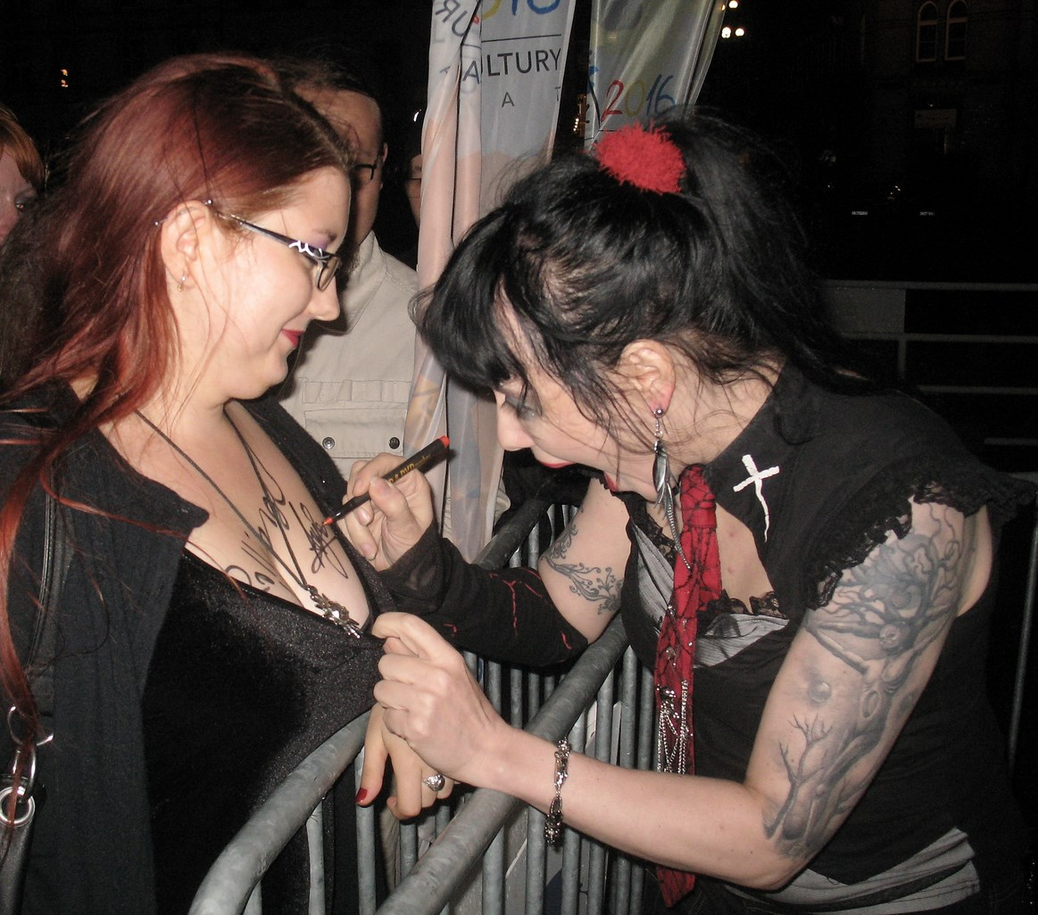 Fan body signed by A. Orthodox.